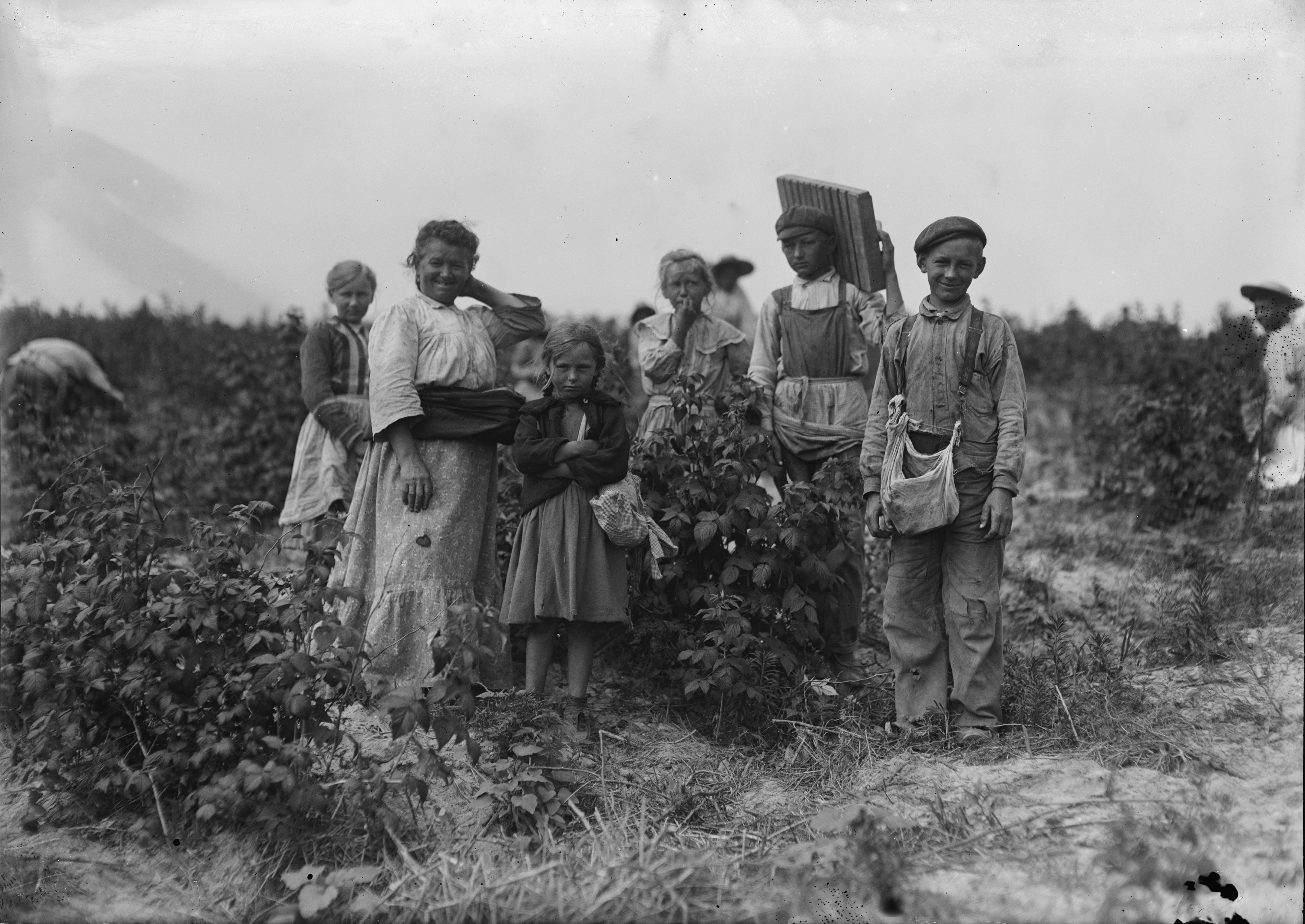 Orginal description: "Mrs. Bissie and family (Polish). They all work in fields near Baltimore in summer and have worked at Biloxi, Miss. for two years. Location: Baltimore, Maryland."